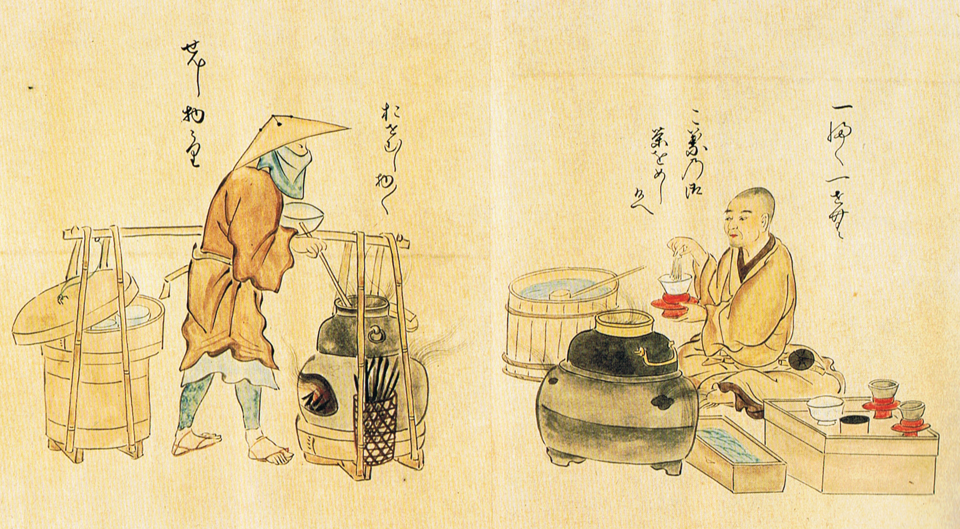 Poetry Competition of Artisans, vol.2 from a set of three vols.